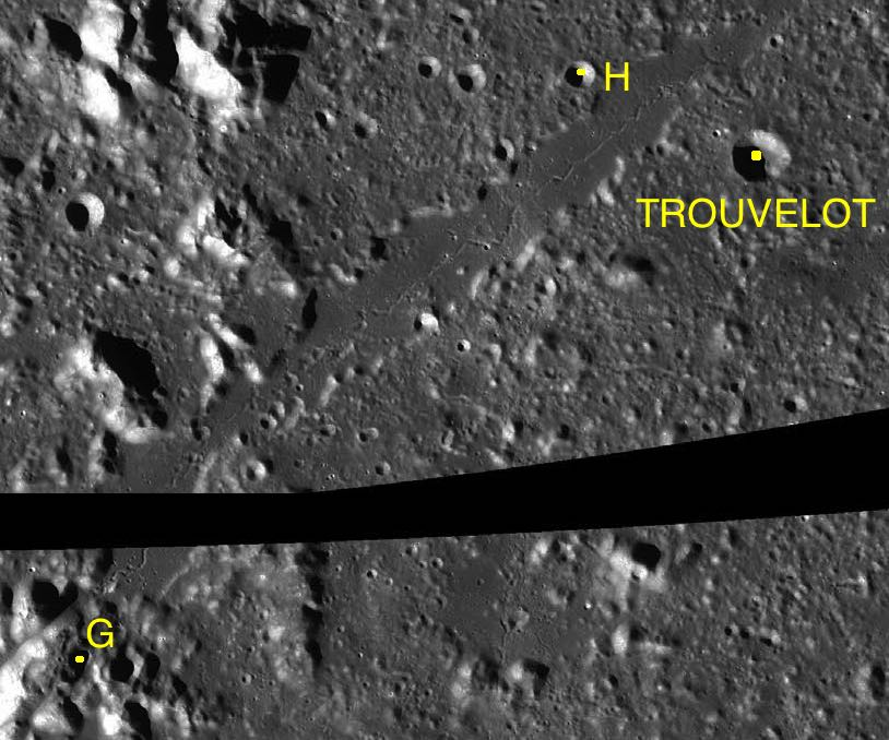 Parts of the charts LAC-12, LAC-25 used for the presentation. Trouvelot is a lunar impact crater located to the south of the Mare Frigoris.